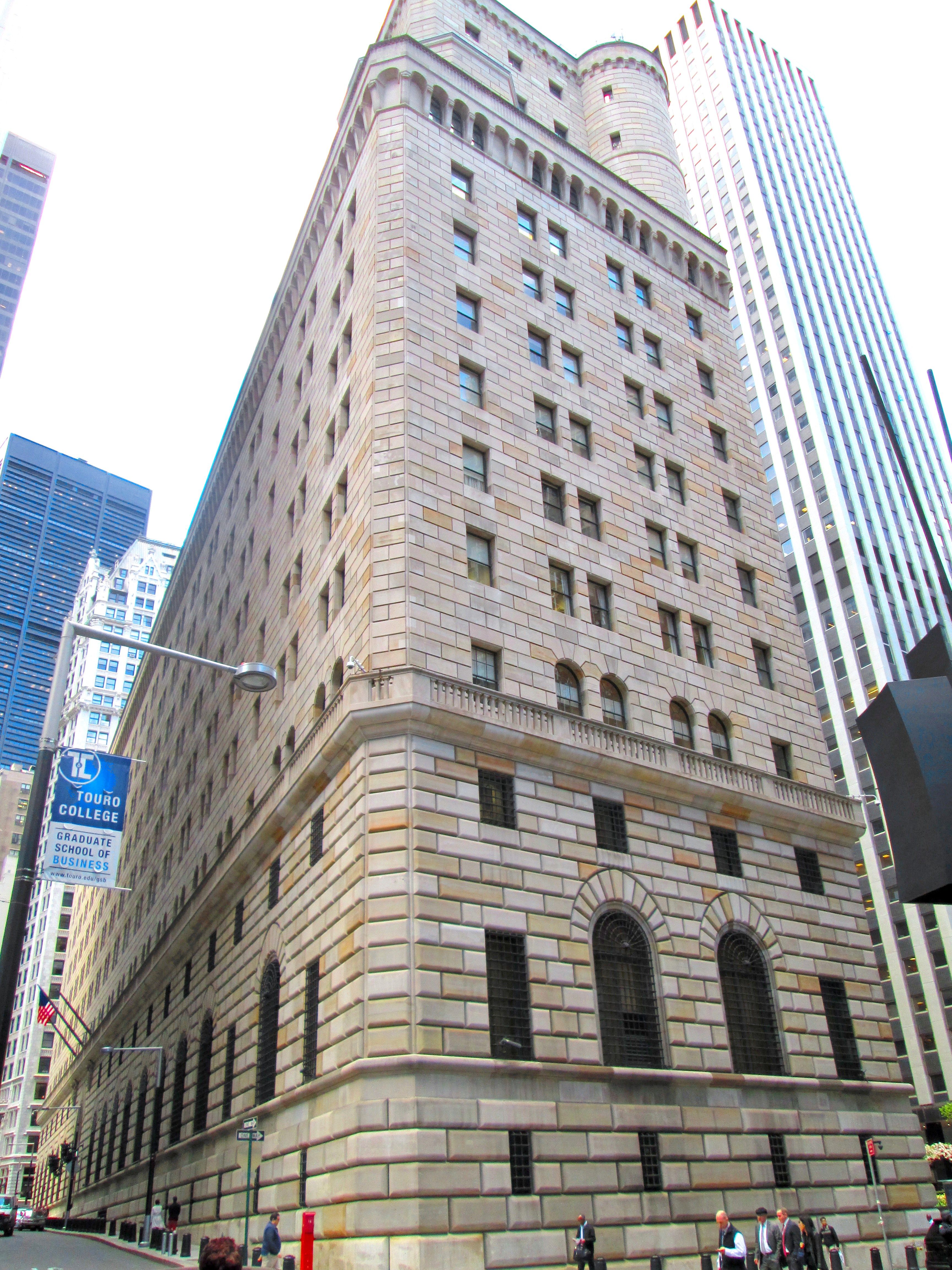 The Federal Reserve Bank of New York Building at 33 Liberty Street as seen from the east.